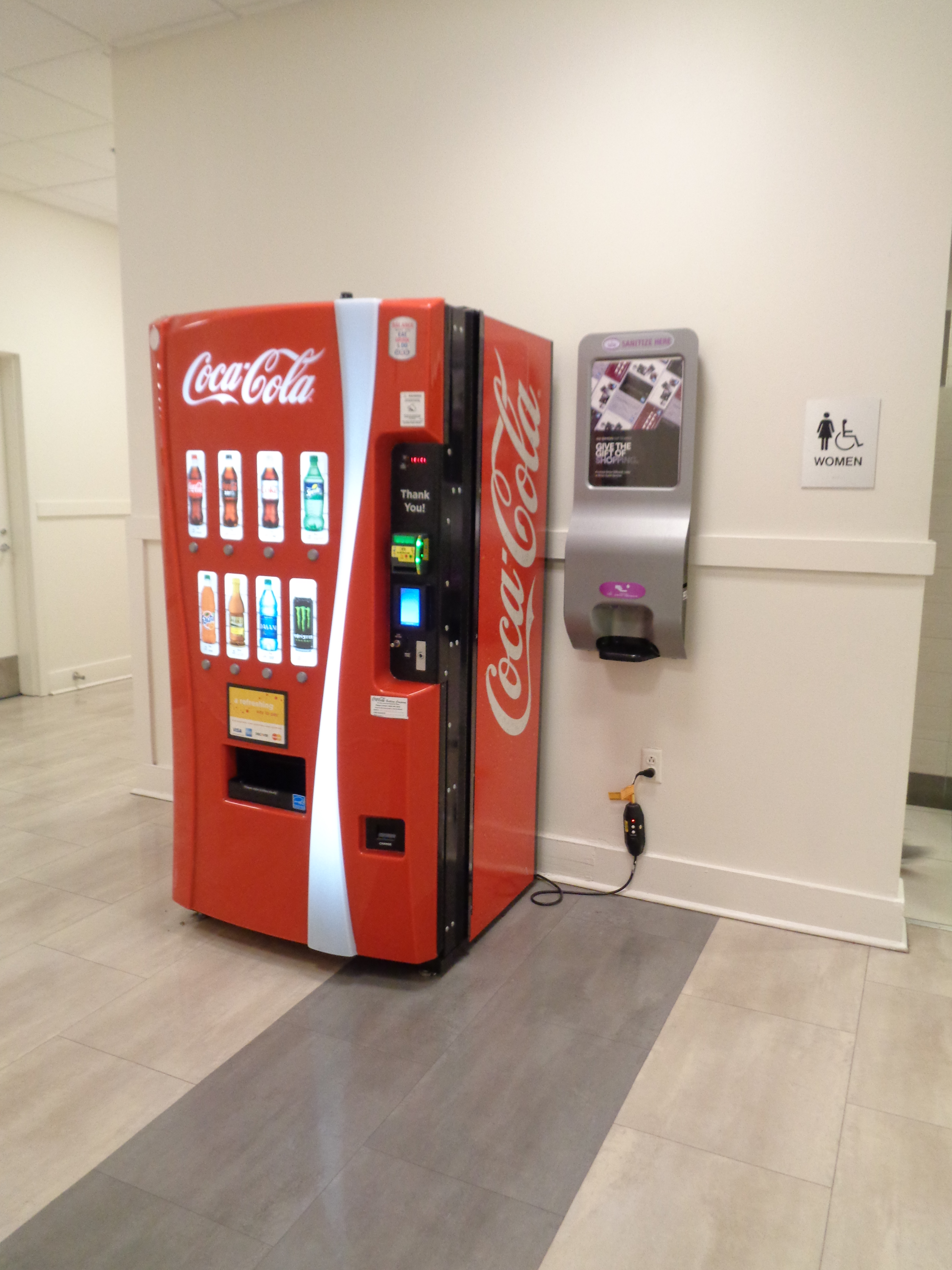 A Coca-Cola vending machine (left) and an unusual hand sanitizer kiosk (right) outside a bathroom Inside The Mills at Jersey Gardens mall in Elizabeth, New Jersey. Isn't it odd (or convenient?) to put a Coke machine outside the restroom?